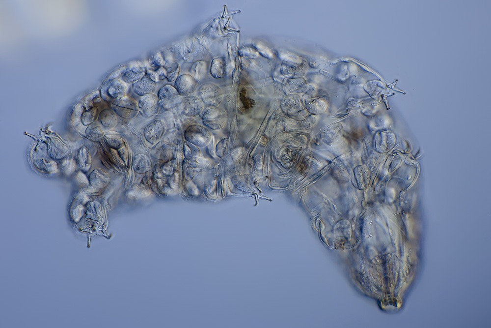 Tardigrades (commonly known as waterbears or moss piglets)